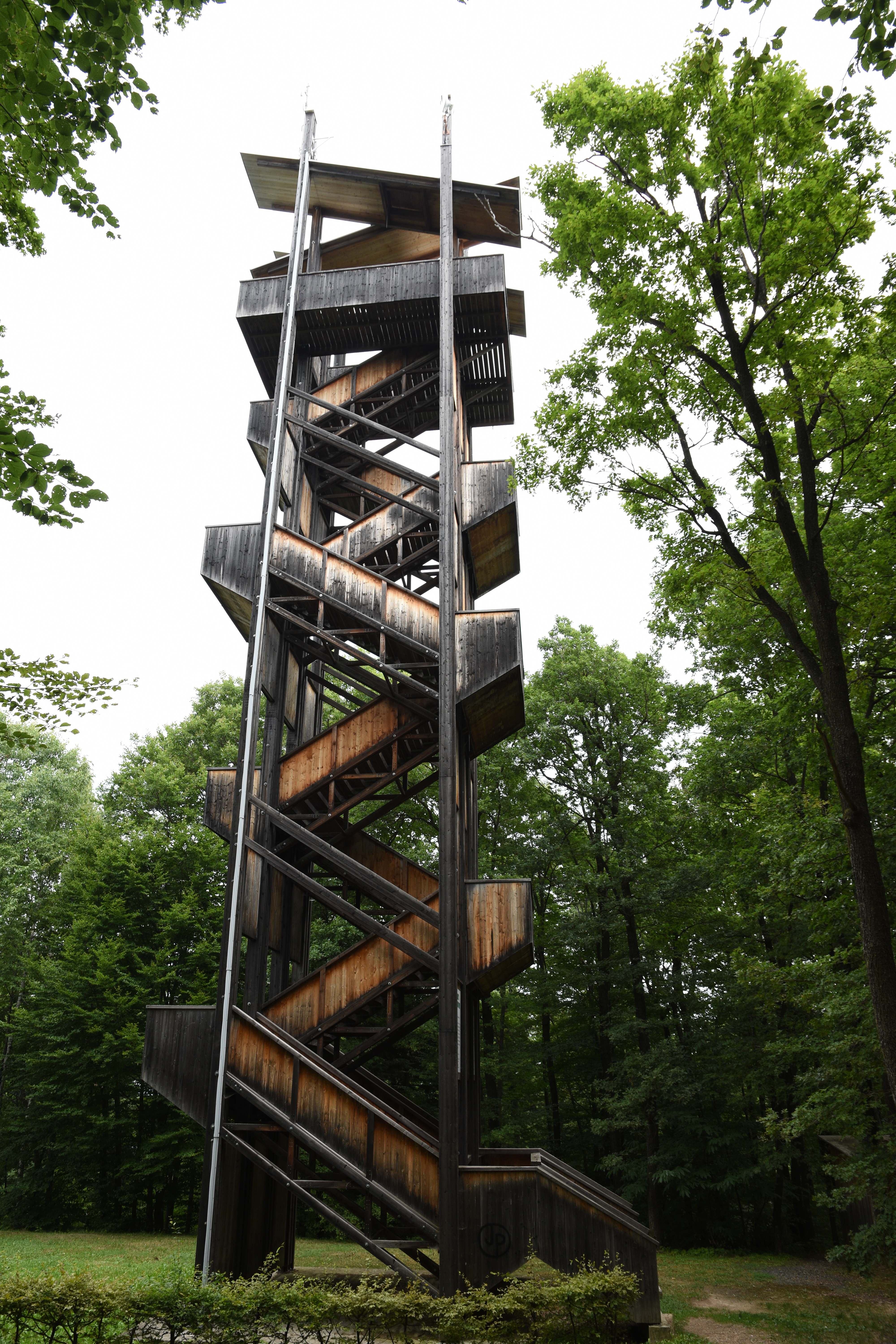 Lockenhaus Observation tower in Burgenland